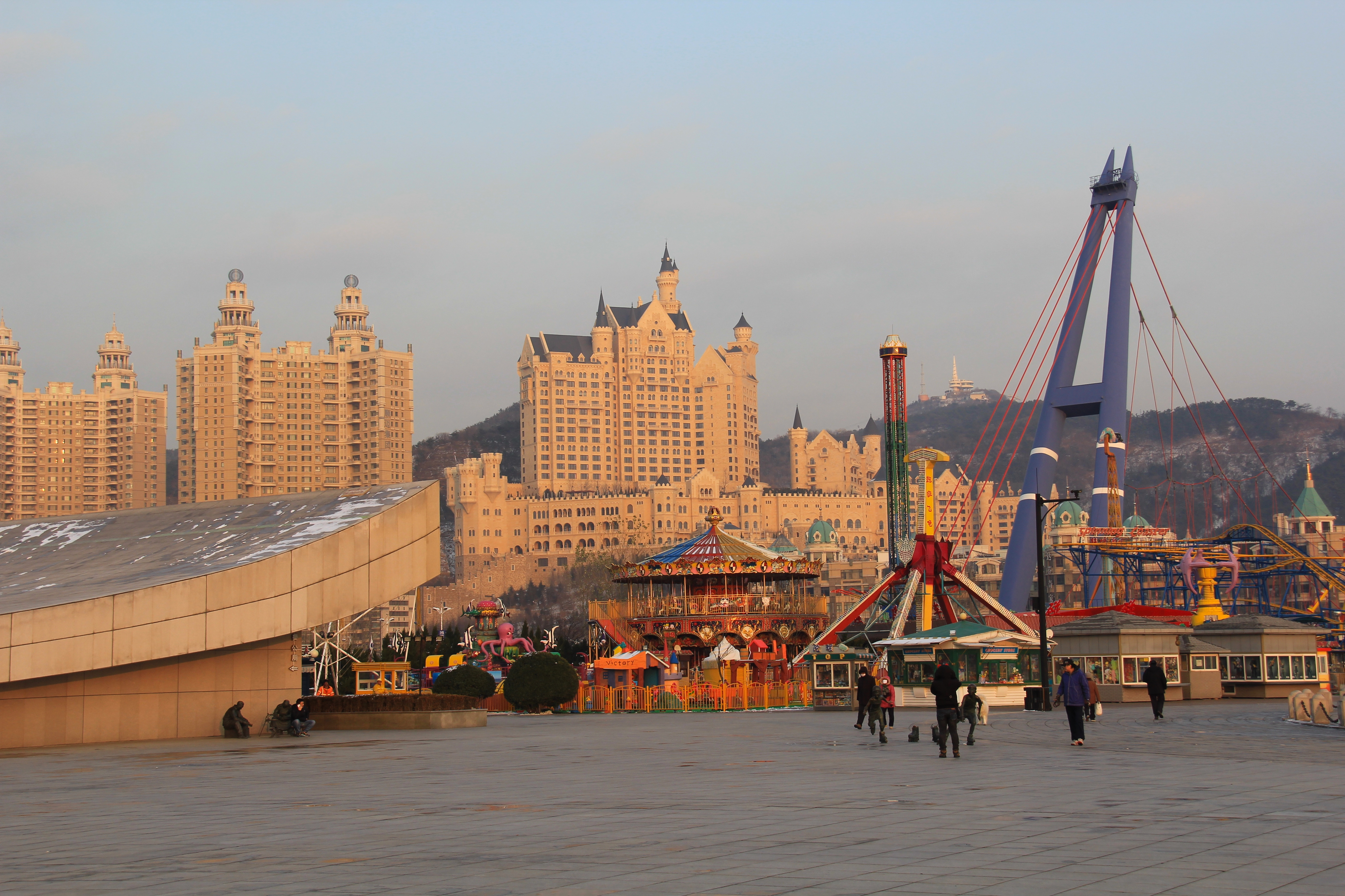 Xinghai Square east side, Dalian, China